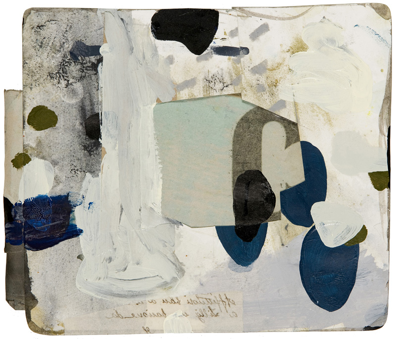 Original painting by Irish Artist David Quinn